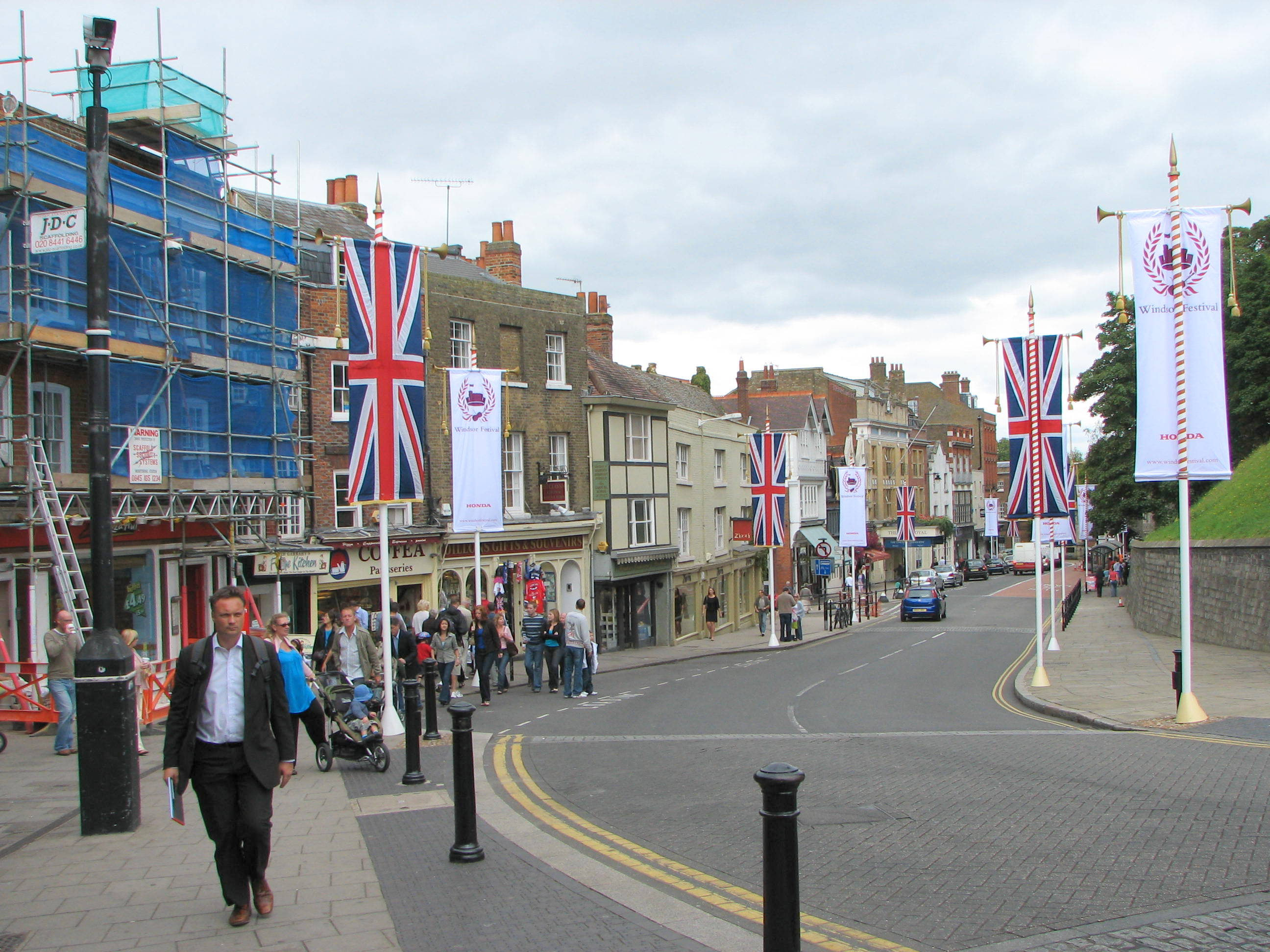 Thames Street, Windsor, Berkshire, England